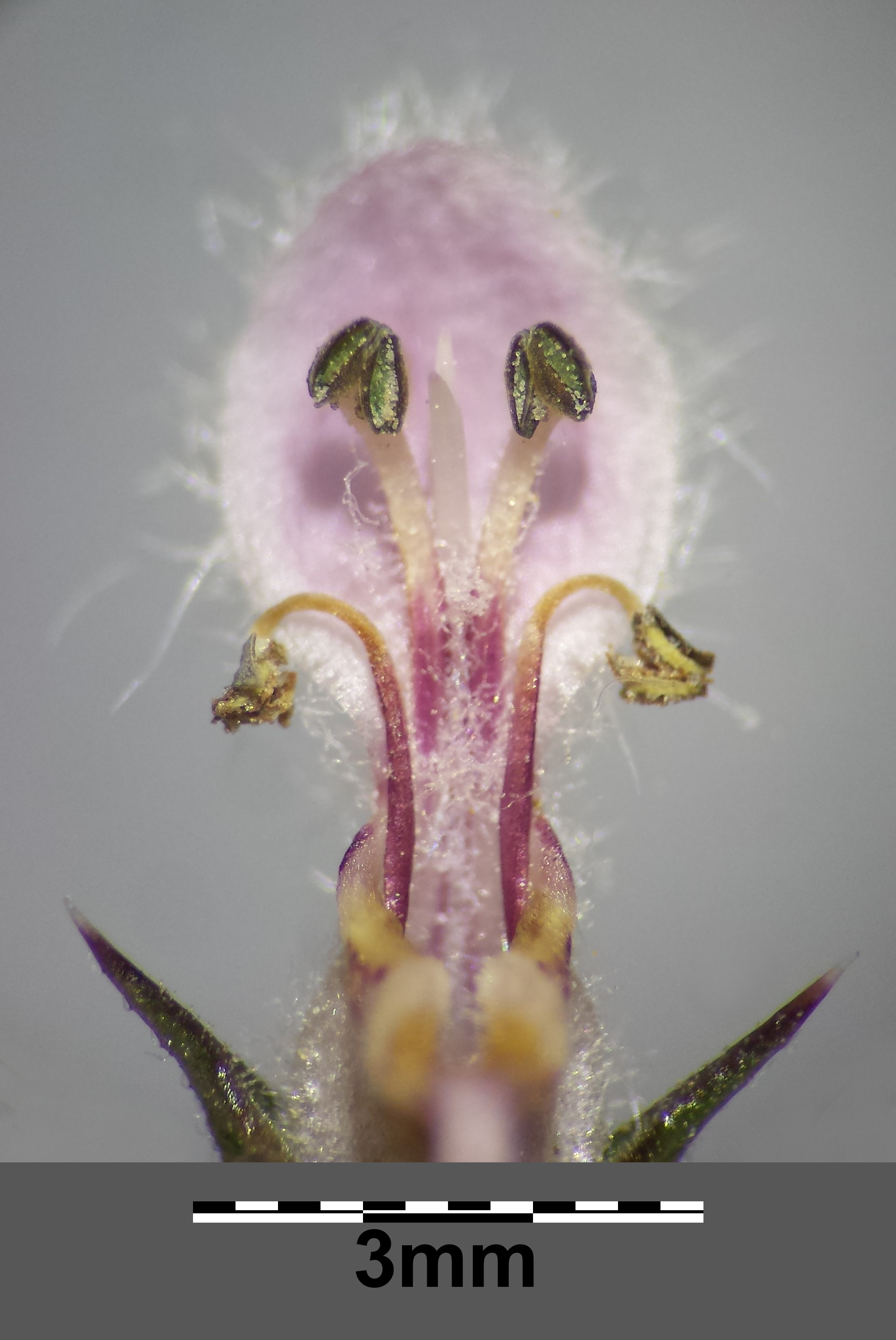 Corolla with stamina Taxonym: Leonurus cardiaca subsp. cardiaca ss Fischer et al. EfÖLS 2008 ISBN 978-3-85474-187-9 Location: Stammersdorf, Vienna-Floridsdorf - ca. 160 m a.s.l. Habitat: wayside